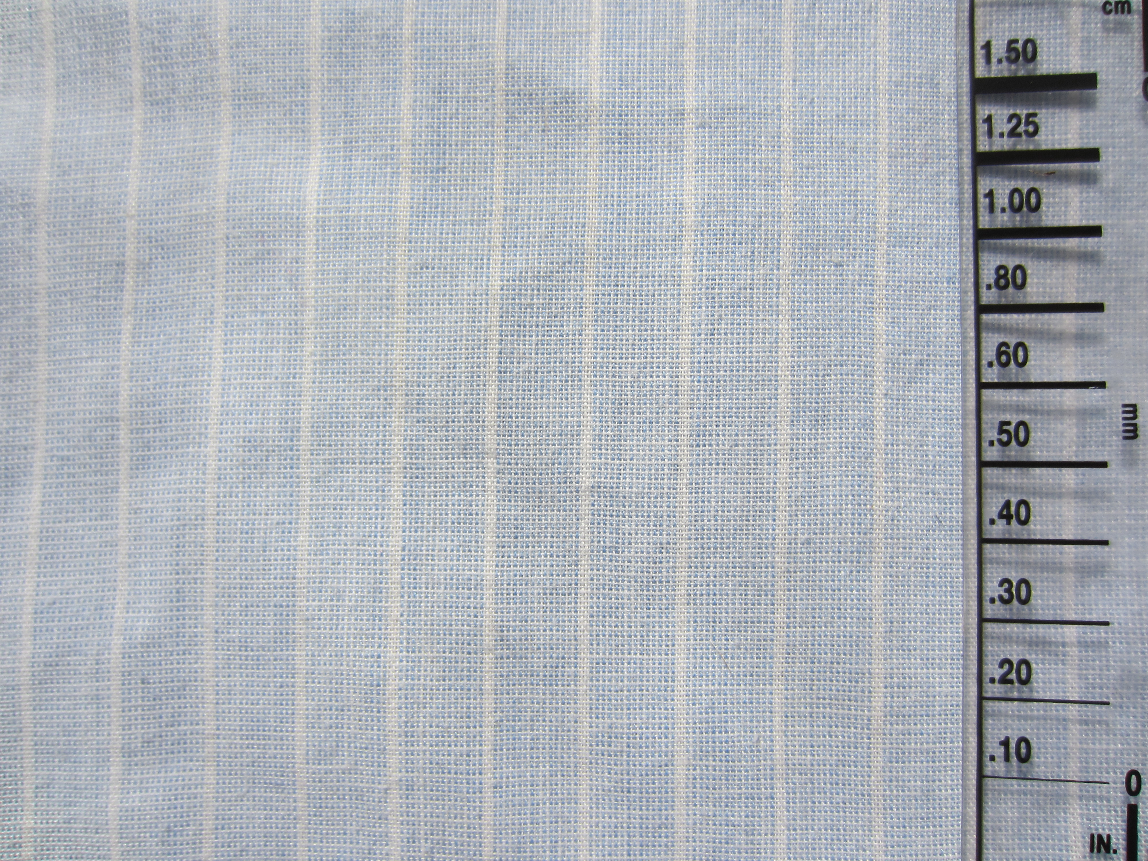 Example of blue, end-on-end cotton cloth with white stripes. Cloth has been washed. Scale shown in millimeters.